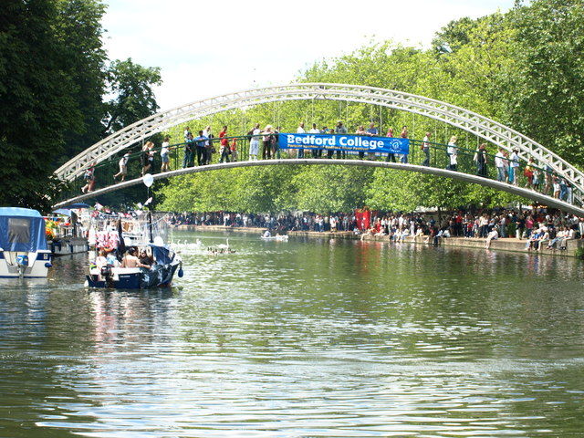 Bedford Suspension Bridge Image taken from a floating pontoon style bridge, installed for the River Festival.